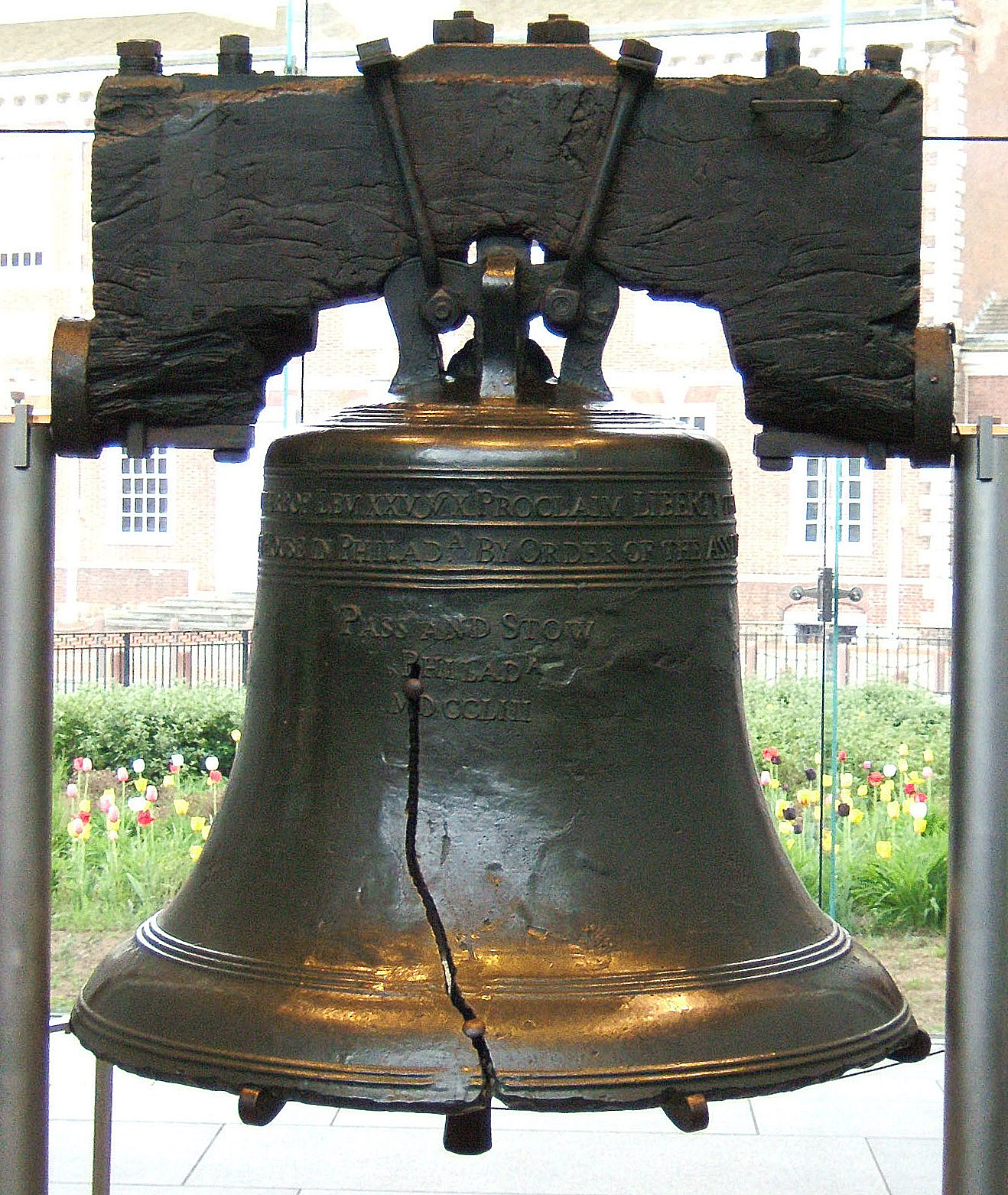 The Liberty Bell in 2008.